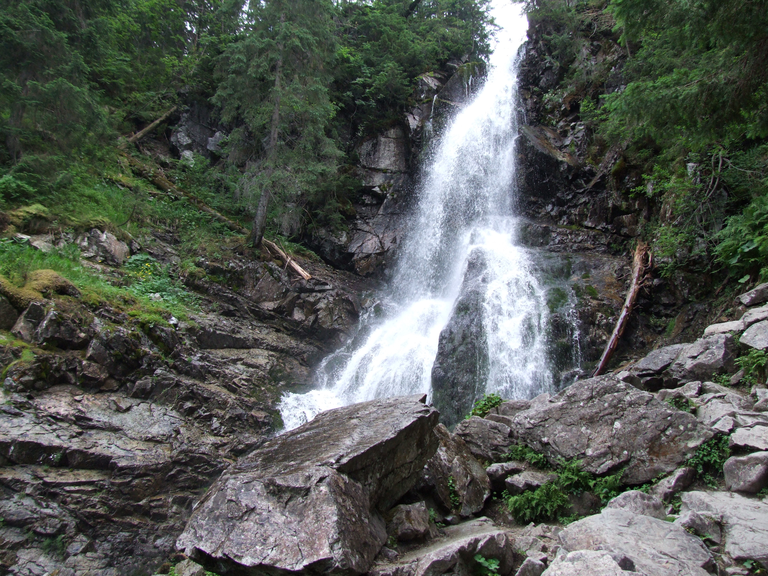 Rohackie Wodospady (West Tatra Mountains)